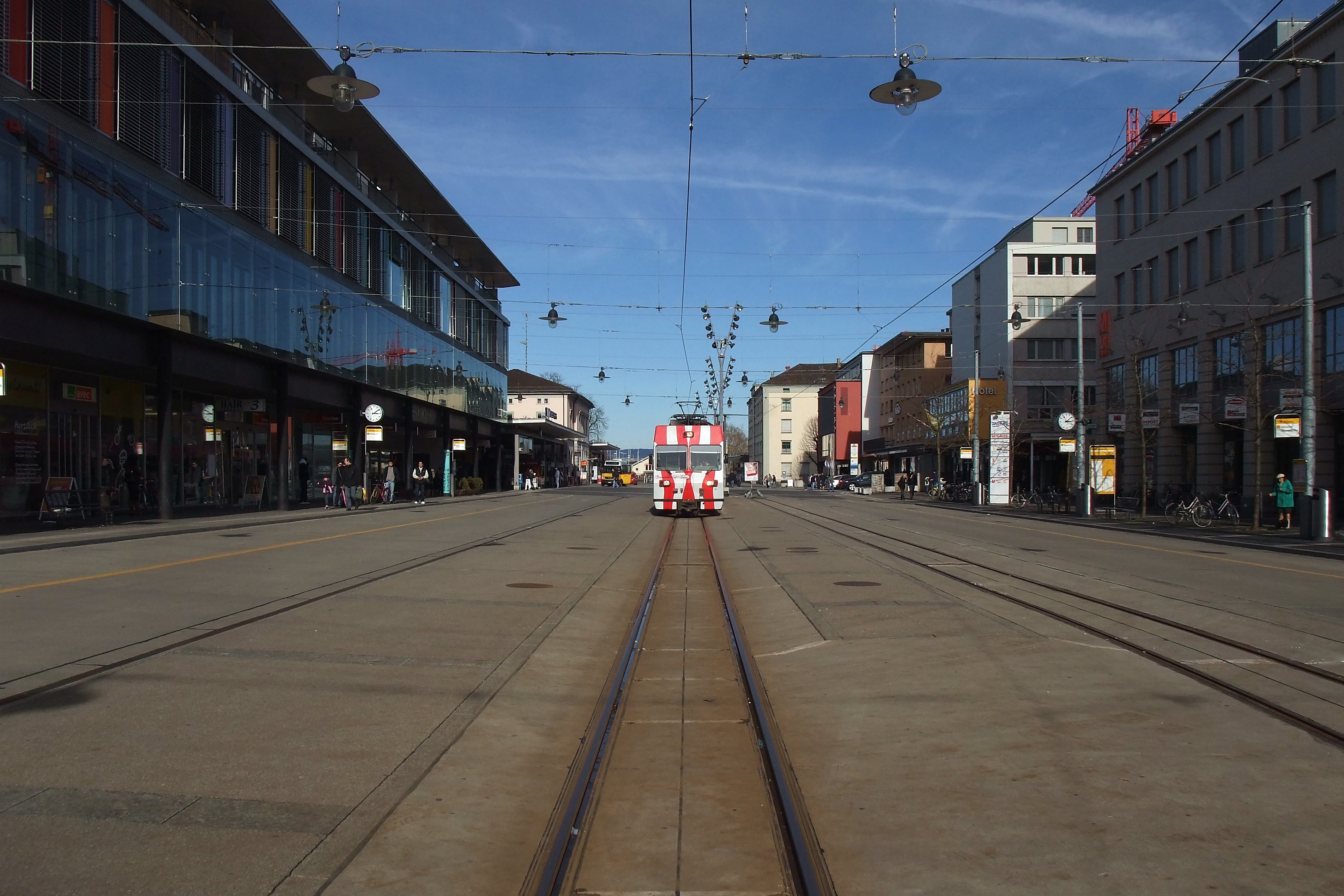 Eyeball to eyeball with the train of the Frauenfeld-Wil-Railways. This train has its place at station Frauenfeld in the middle of the station square. No platform and no roof for the passengers. Switzerland. Feb 21, 2010.